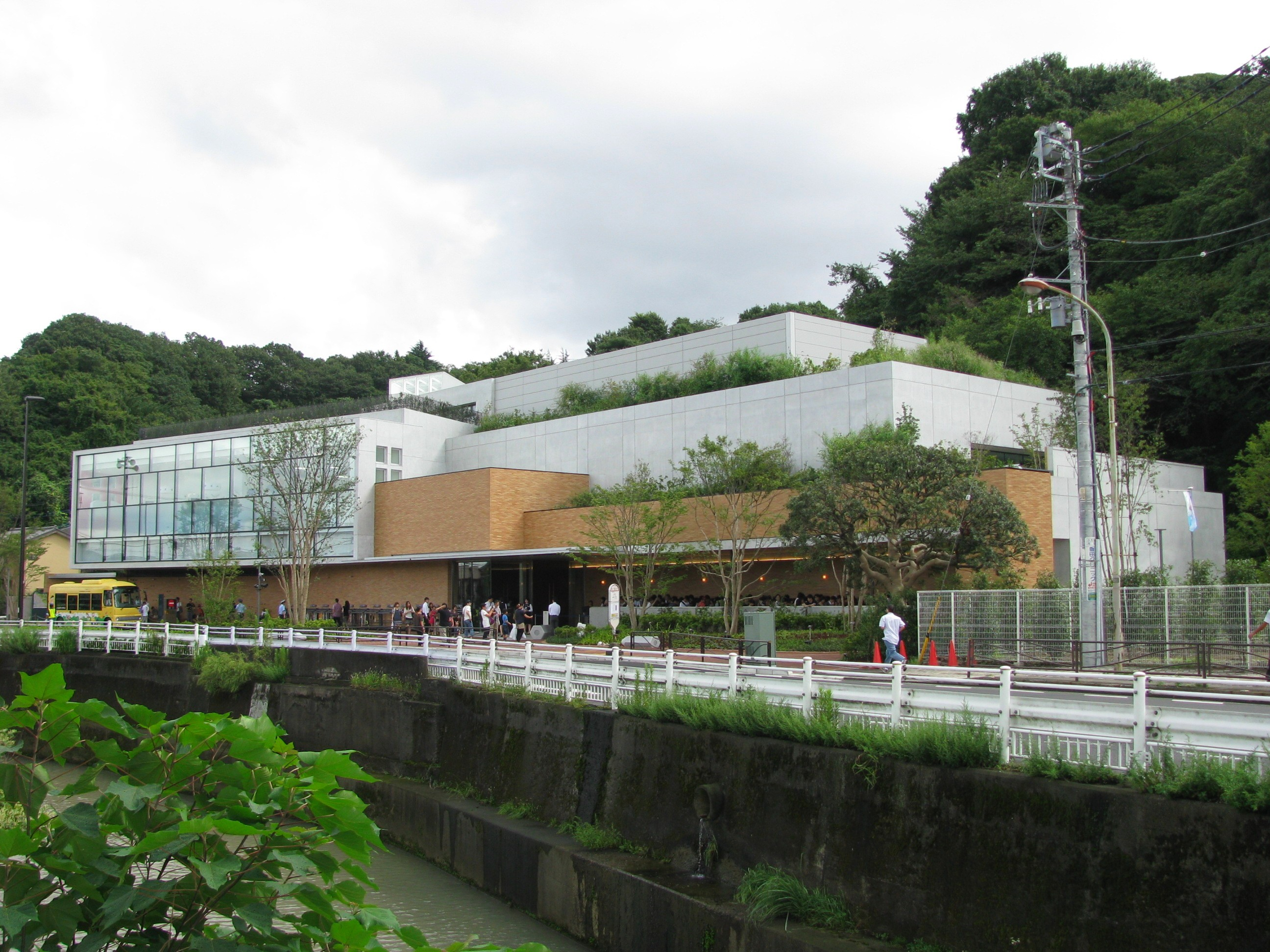 The Fujiko･F･Fujio Museum. Fujiko･F･Fujio is a comics artist. His works is Doraemon, Perman, Esper Mami and others. This place is Tama-ku in Kawasaki, Kanagawa Prefecture, Japan.